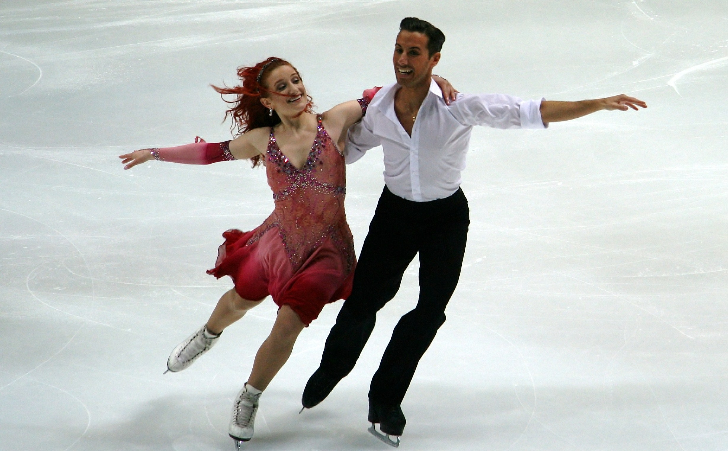 Brooke Frieling and Lionel Rumi at the 2011 World Figure Skating Championships